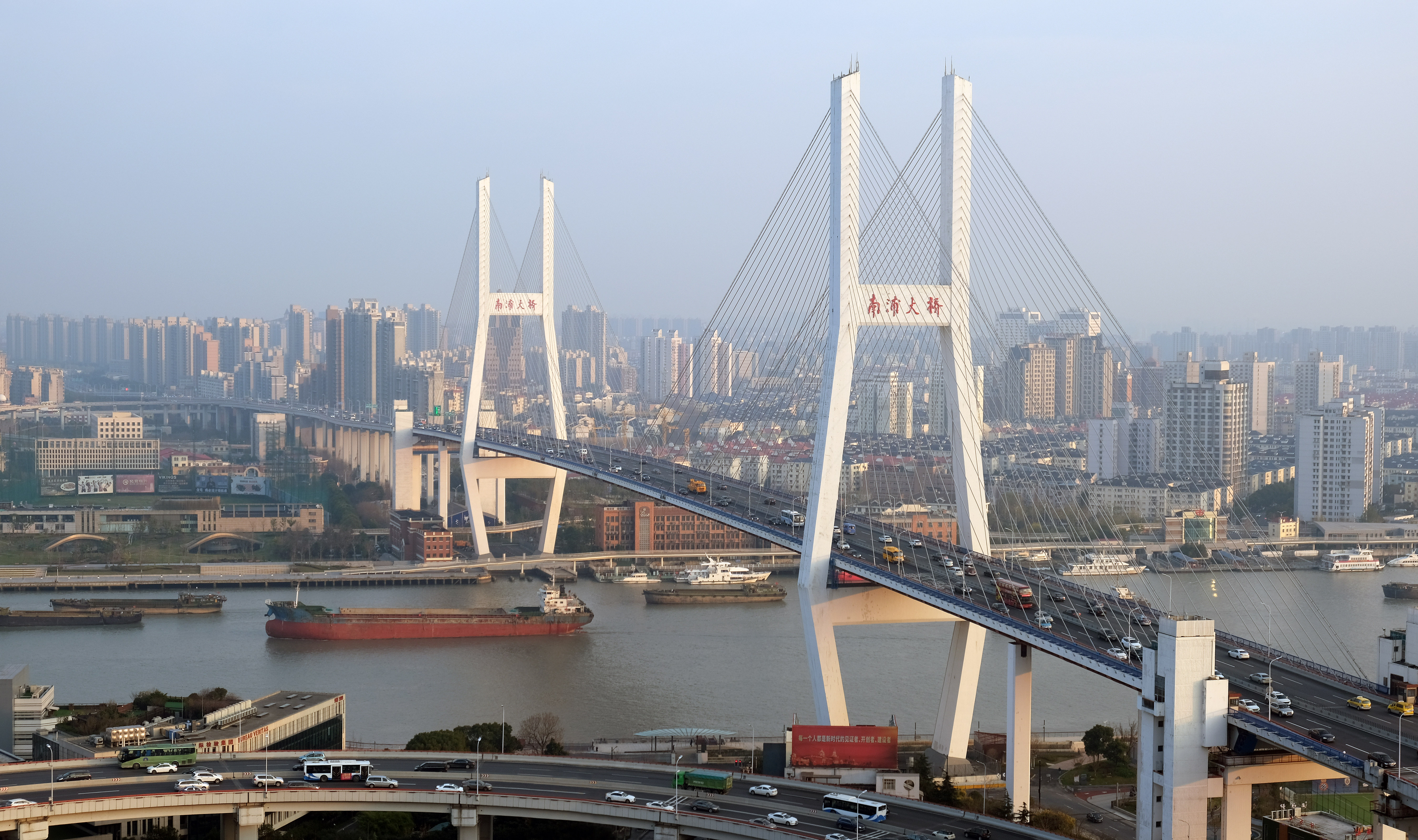 Nanpu Bridge, Shanghai.